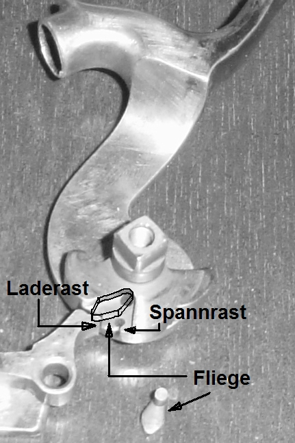 a fly in the tumbler must be used if a set trigger is used